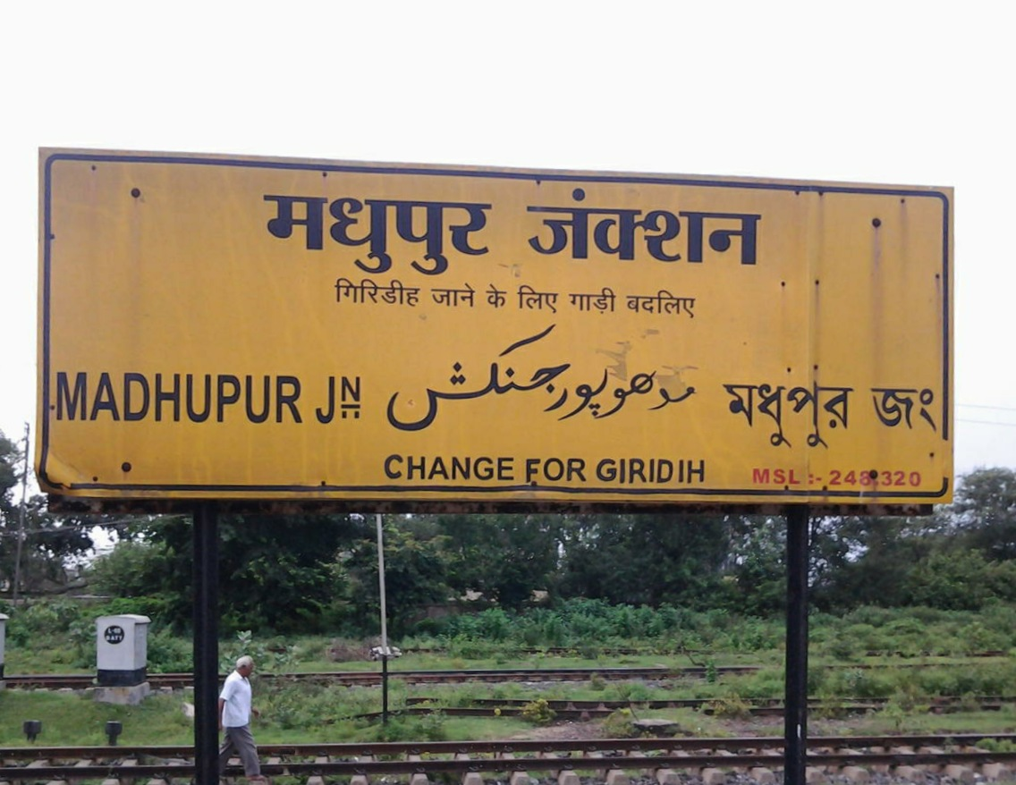 Madhupur Junction signboard